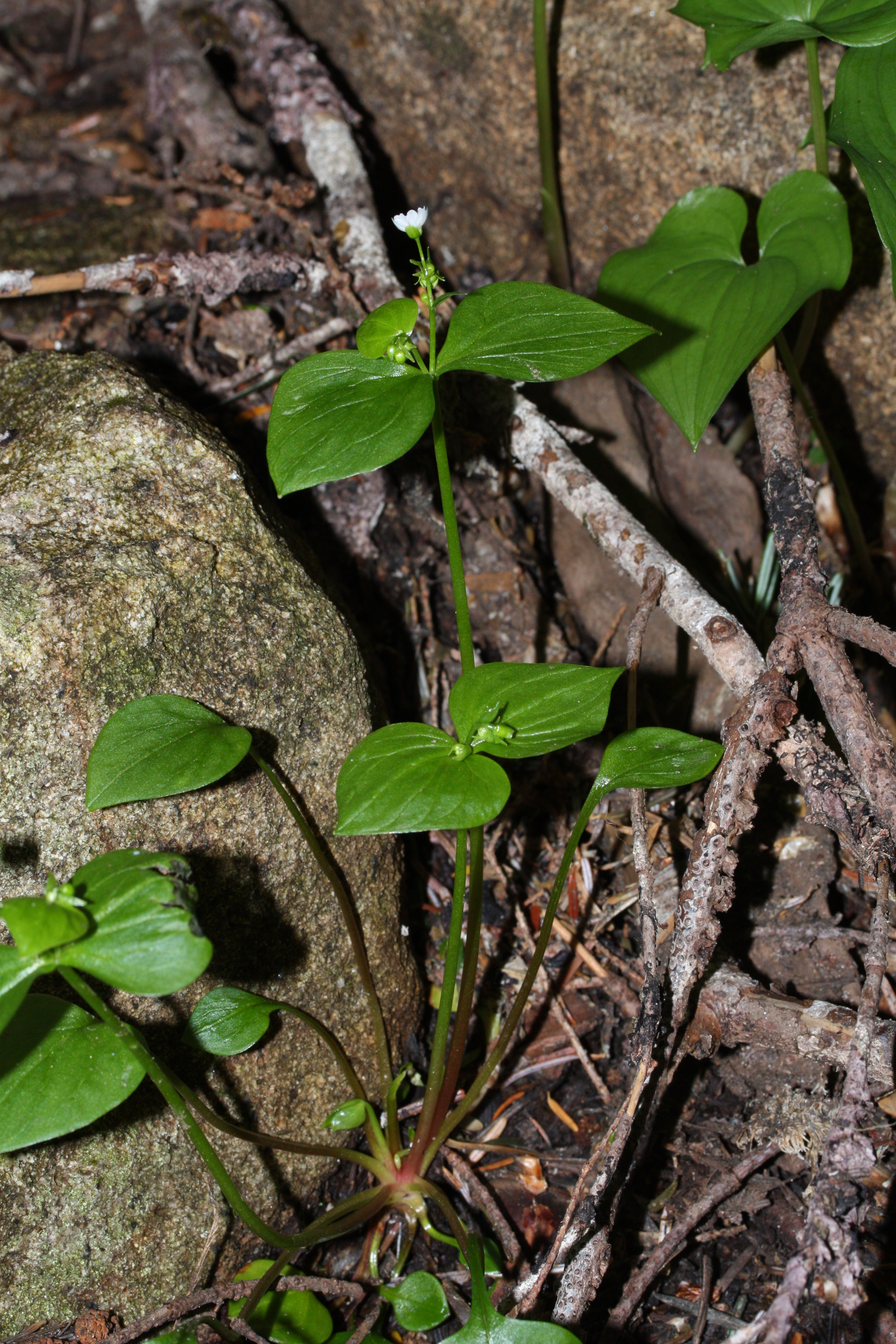 Siberian Springbeauty